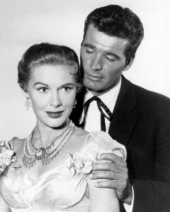 Photo of Diane Brewster and James Garner from the television program Maverick.